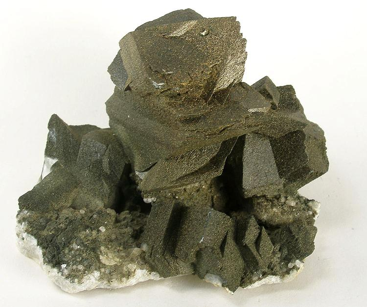 Adularia, Chlorite Locality: Rhône Glacier, Furka, Furka pass area, Goms, Wallis (Valais), Switzerland (Locality at ) Size: 10.0 x 8.8 x 6.3 cm. A classic, older cabinet specimen from the Rhone Glacier of Switzerland. This aesthetic, two-sided specimen features a stacked cluster of sharp, twinned orthoclase variety adularia crystals coated with chlorite on a plate of adularia. The large twin is 6.1 cm across. Nearly pristine. Uncommonly fine quality from this noted locale. Ex. Robert Sullivan Collection and comes with his faded label.